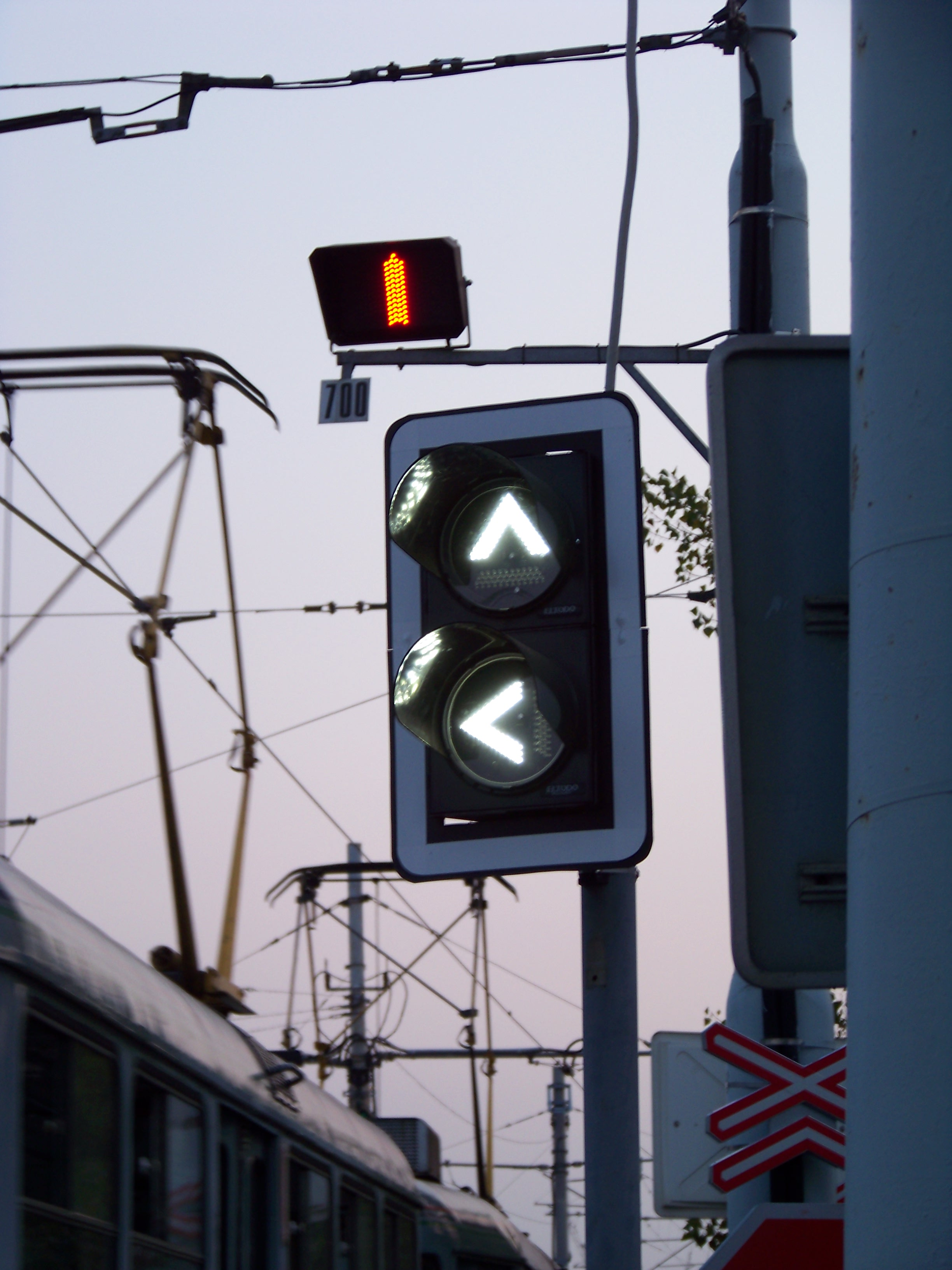 Braník, Prague, the Czech Republic. Prototype tram signal near "Nádraží Braník" track loop.